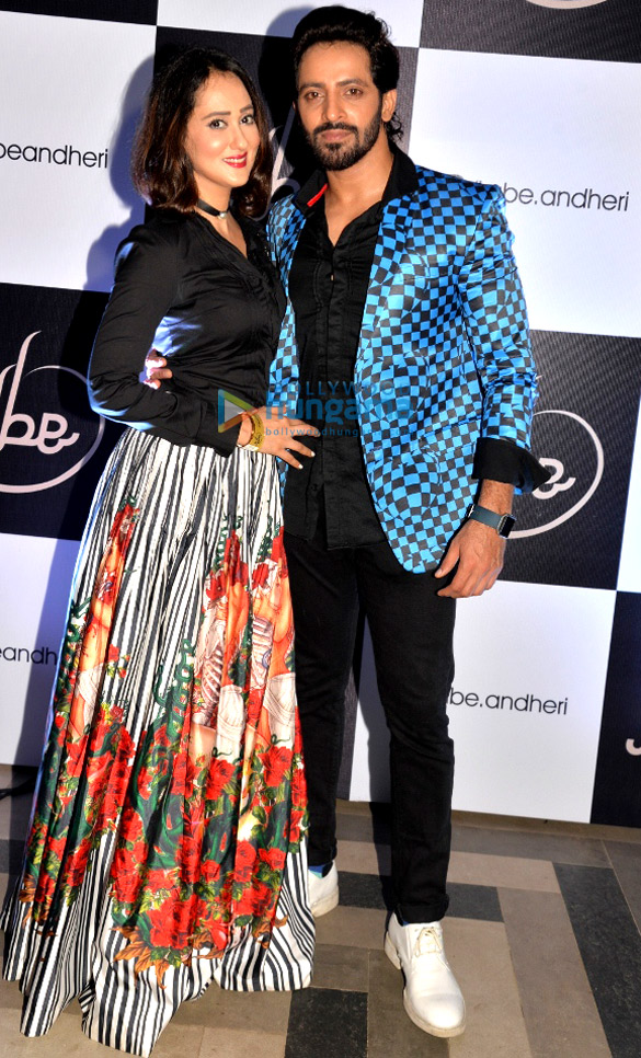 Walia and Manaktala at the launch of ‘KUBE’ in Mumbai